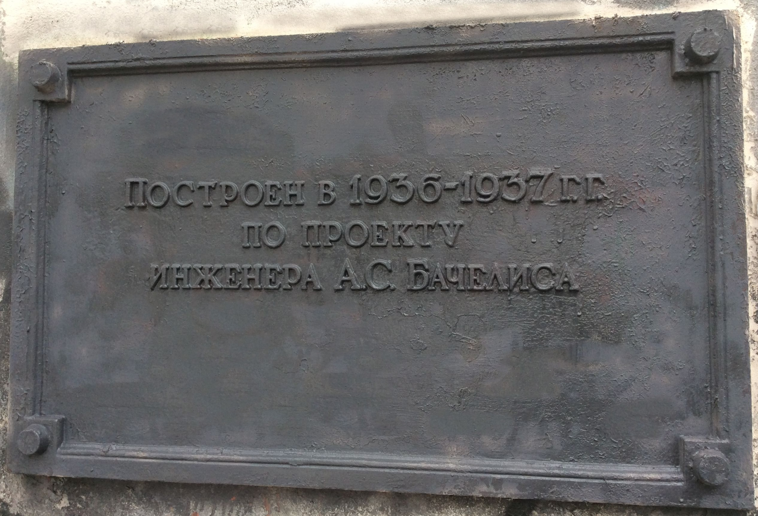 Commemorative plaque on the Bachelis Bridge over the Moscow Canal, Russia